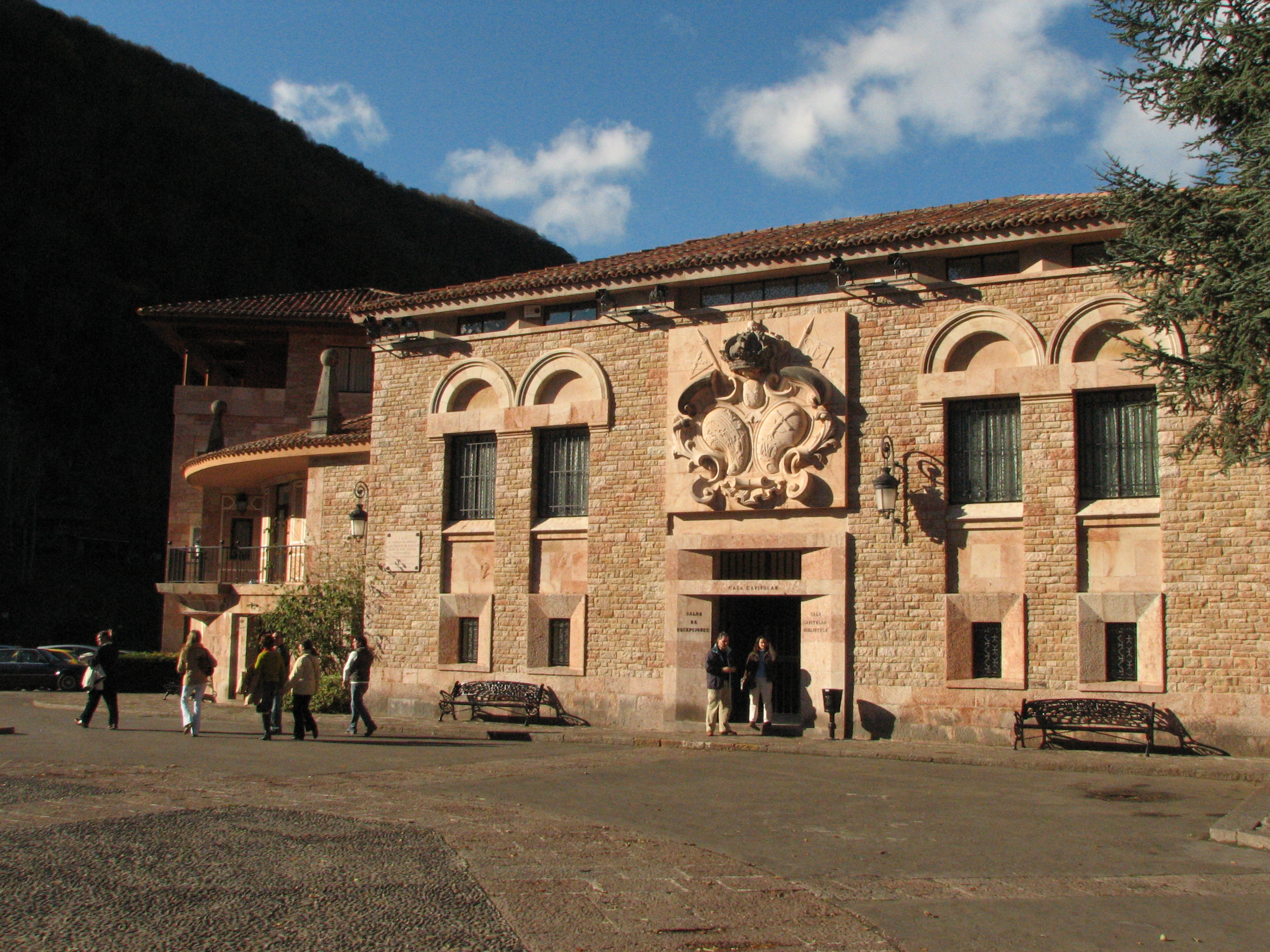 Chapter house of the royal site of Covadonga in the Asturian municipality of Cangas de Onís